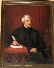 William Cranch United States Circuit Judge